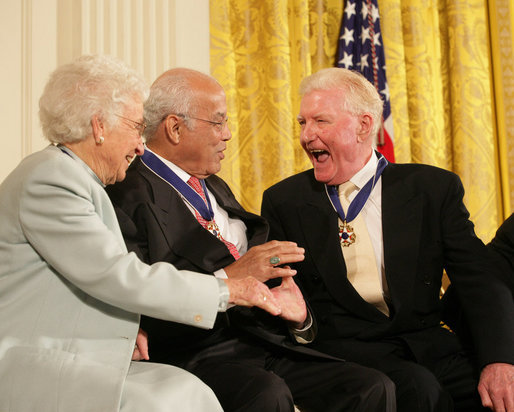 Image of Paul Johnson. Author Paul Johnson is congratulated by Dr. Norman C. Francis and Ruth Johnson Colvin after receiving his Presidential Medal of Freedom from President George W. Bush Friday, Dec. 15, 2006